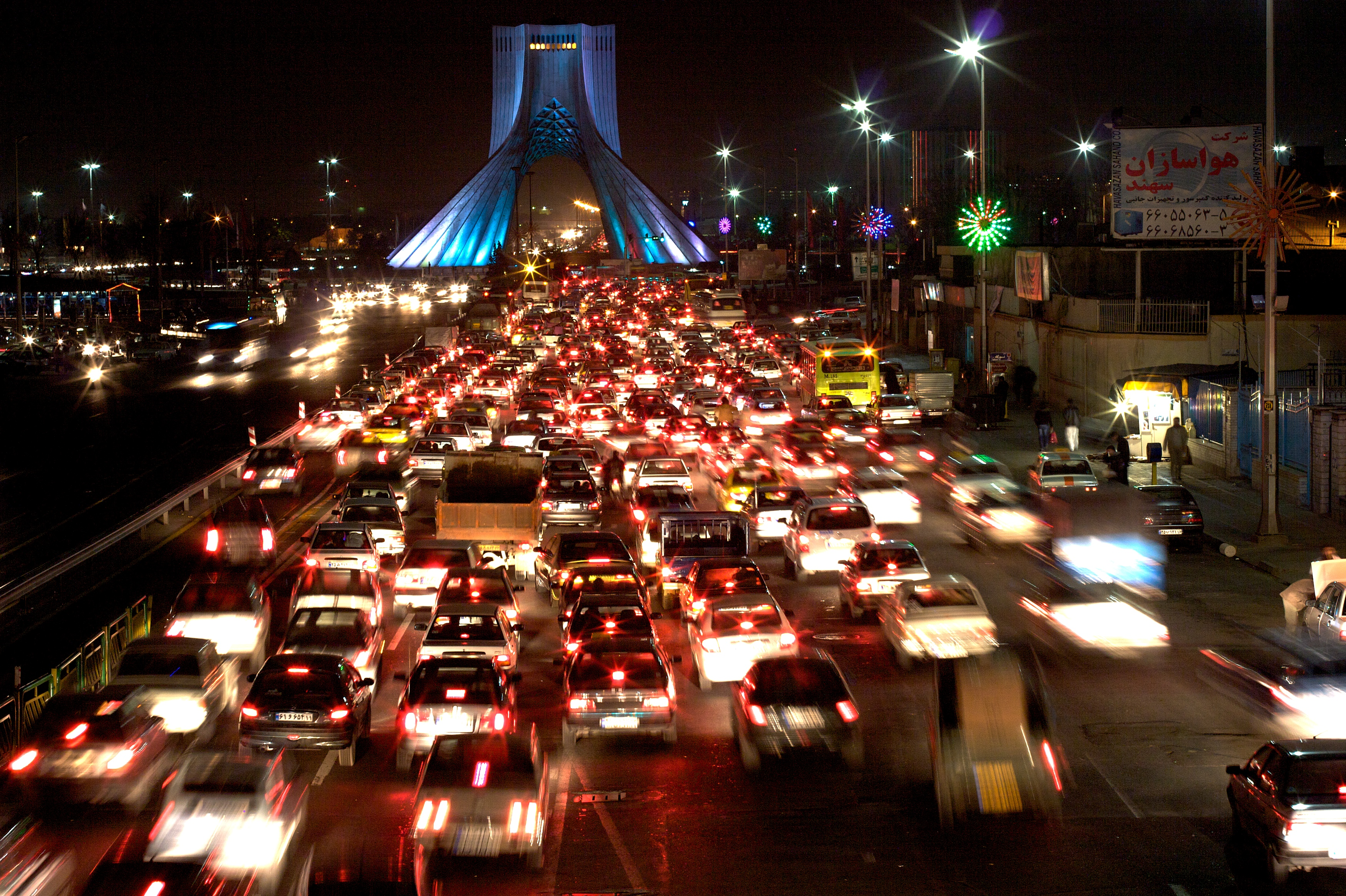 Taken from a pedestrian bridge at night. Sadly the bridge was slightly shaking in the wind making a completely sharp image impossible. This one turned out very nicely nonetheless.